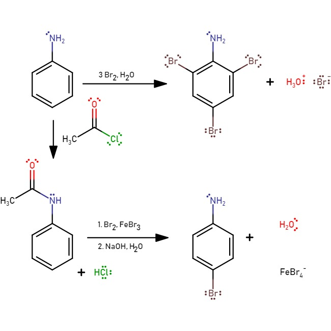 Adding bromine directly forms 2,4,6-tribromoaniline participate. To prevent this, acetyl chloride is usually added to prevent tribromination.